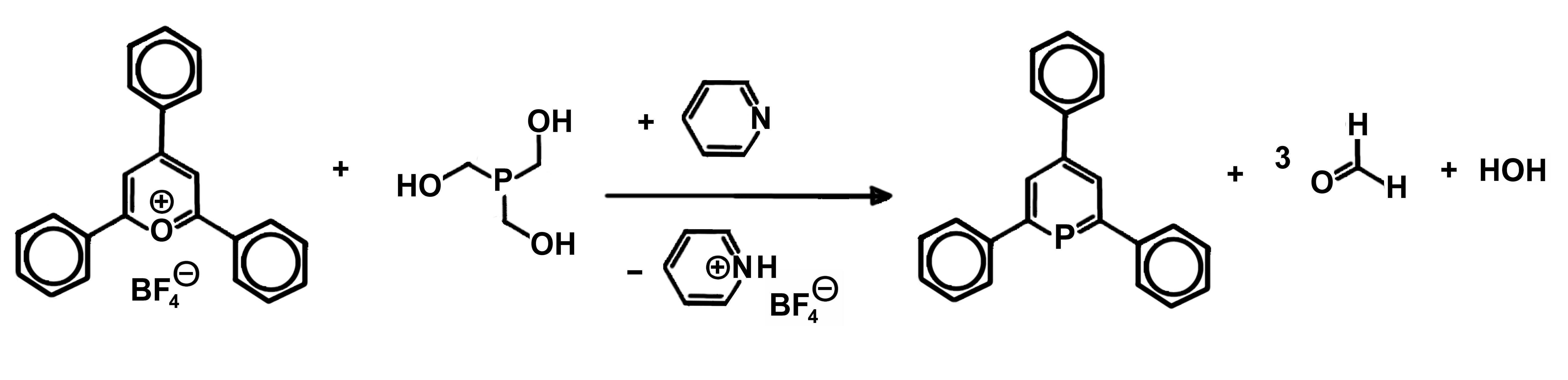 First synthesis of a phosphabenzene by G. Märkl 1966